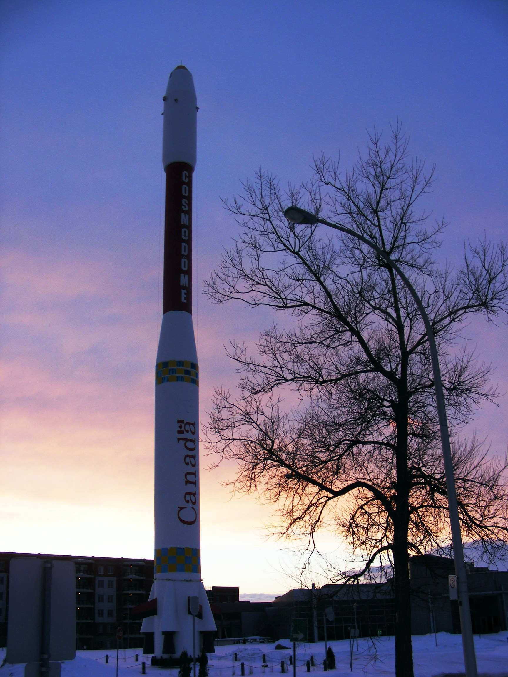 The Cosmodome in Laval during the evening.